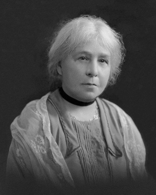 Margaret Alice Murray